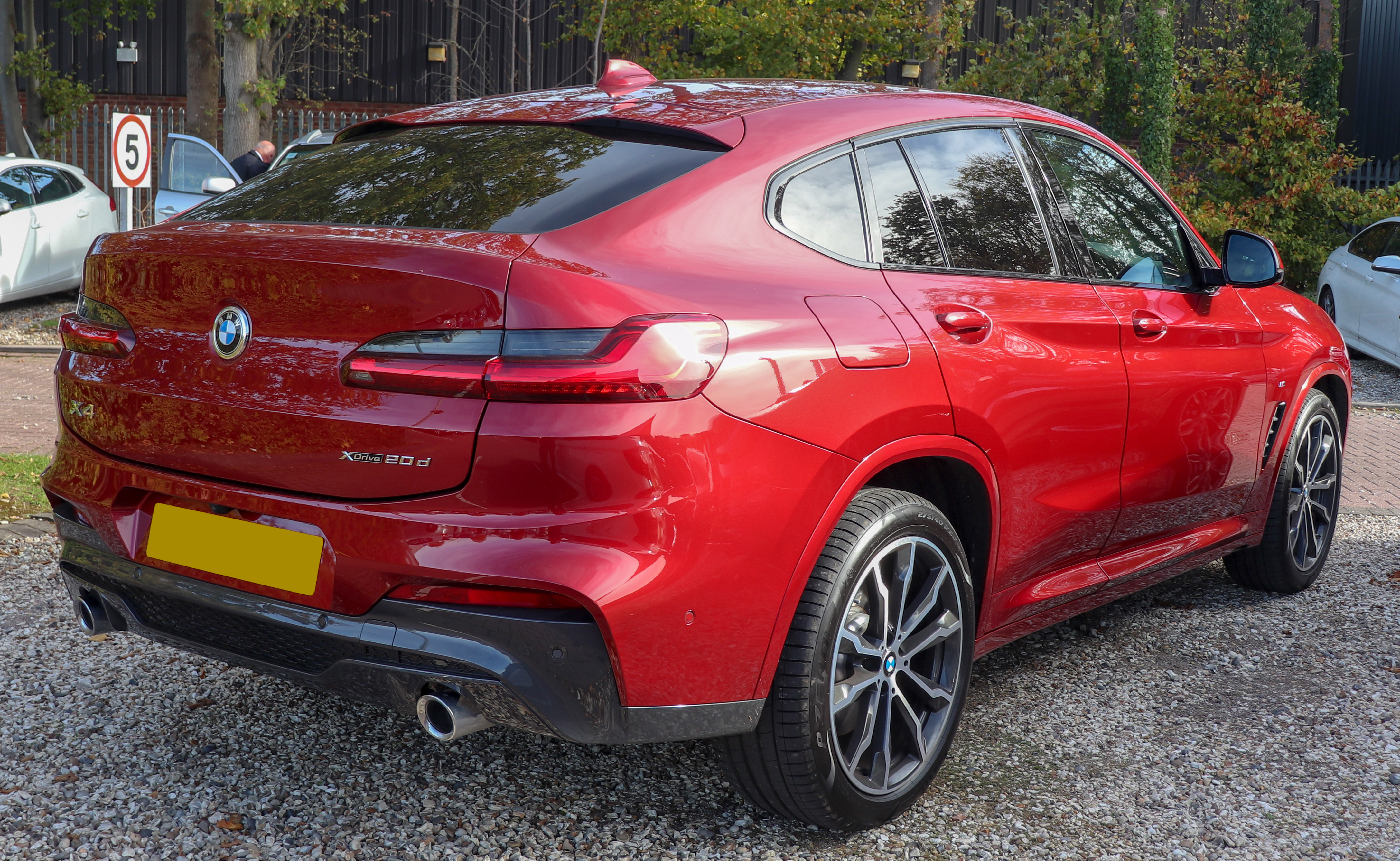 2018 BMW X4 xDrive20d M Sport Automatic 2.0 Rear Taken in Leamington Spa